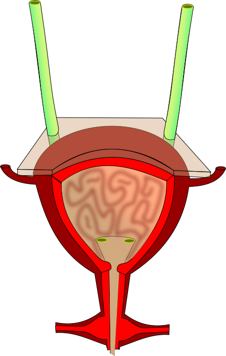 unlabeled view of internal human urinary bladder anatomy